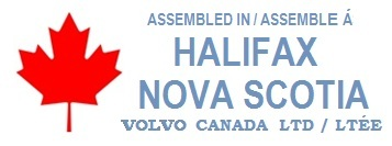 Volvo Halifax Assembly engine bay sticker. Found on vehicles built from the late 1970s to late 1990s.